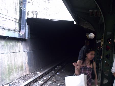 The beginning of the tunnel where the Malbone Street wreck occurred